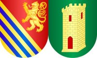 Heraldic Shields Galeano Family